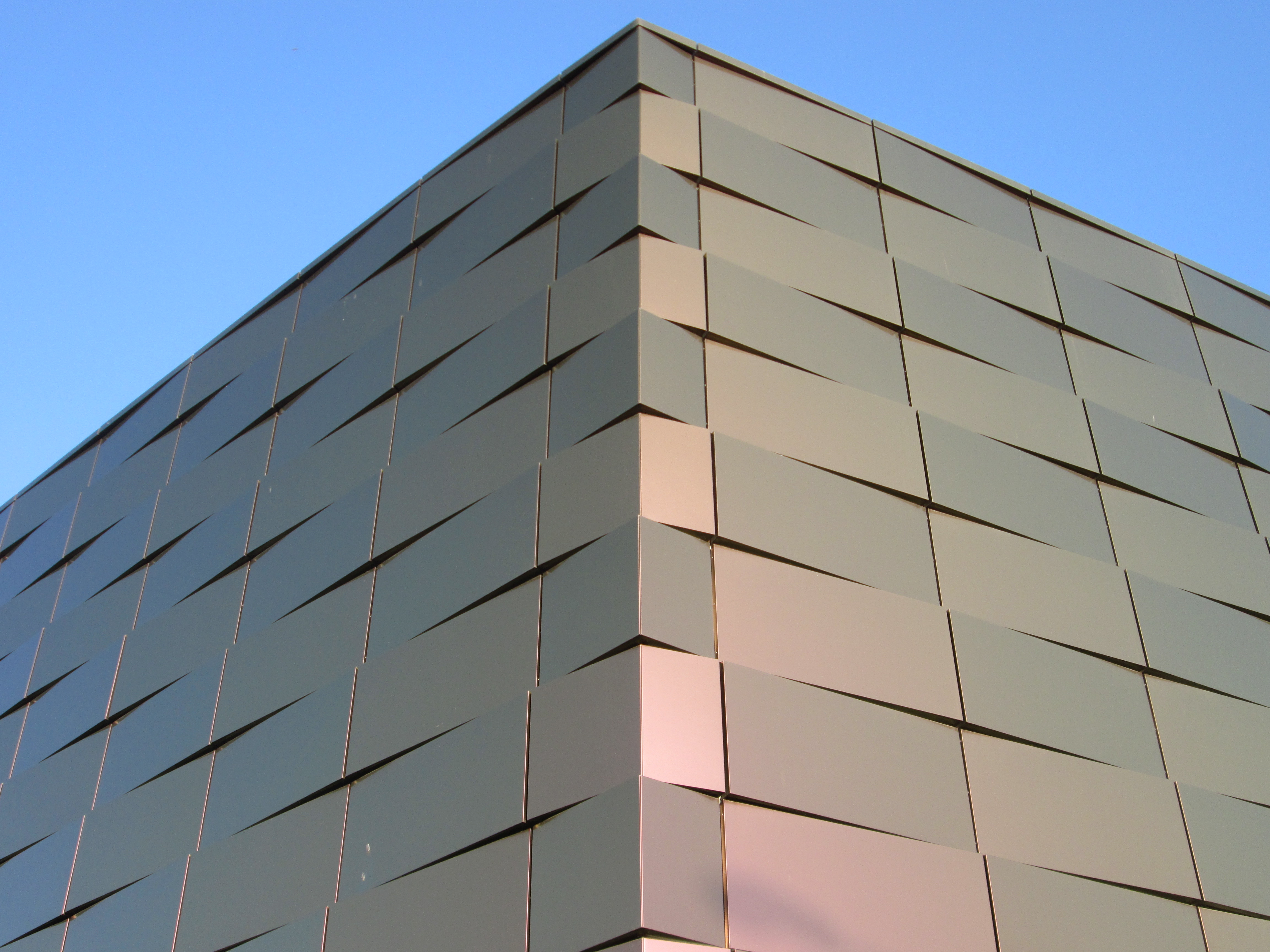 Chameleon-colored aluminum panels are shielding the LERF building from ambient electromagnetic radiation (Timisoara, Romania)